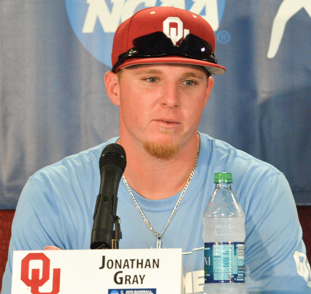 Jon Gray of Oklahoma gives an interview after a game in the 2013 NCAA Division I Baseball Tournament